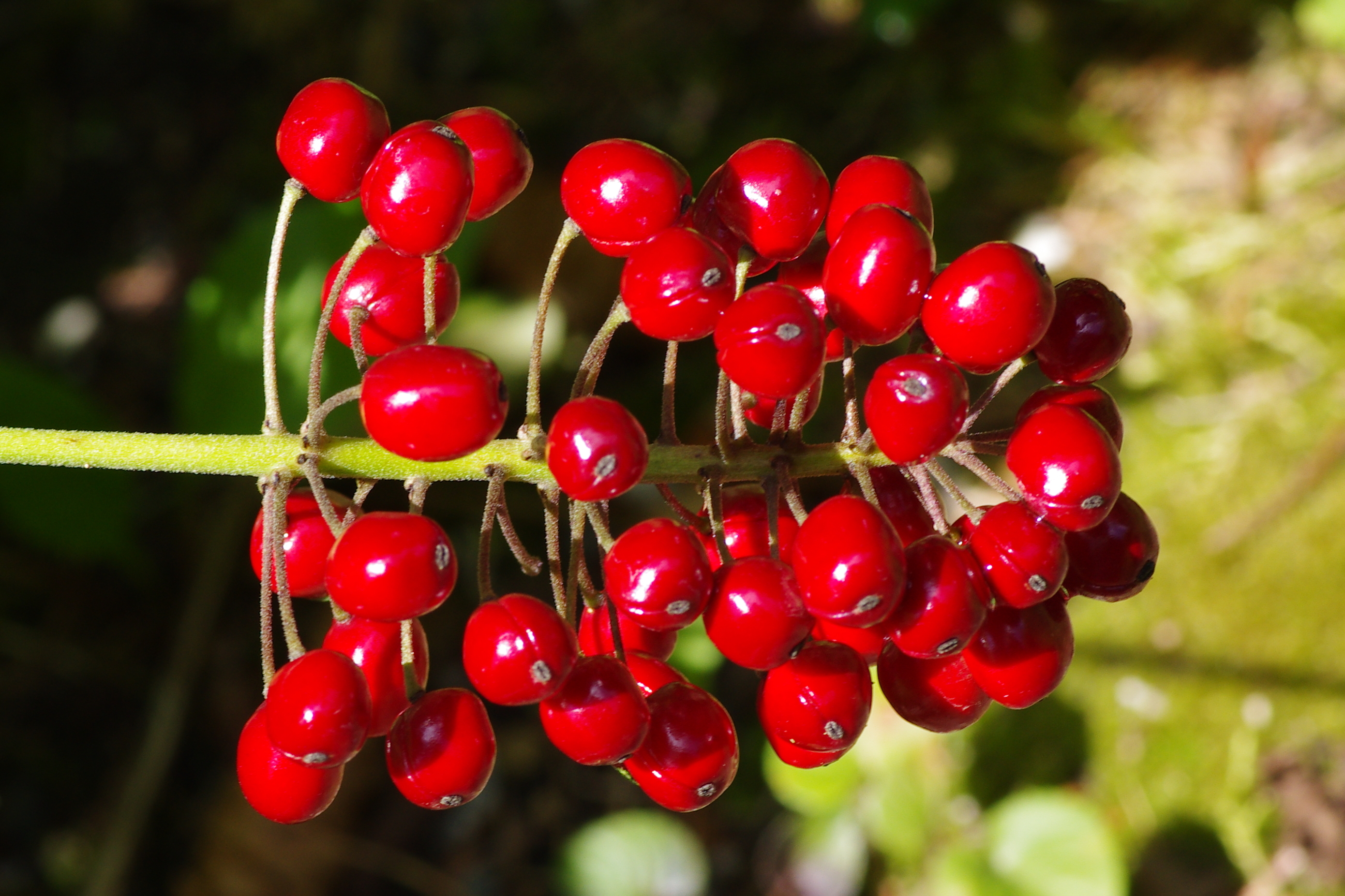 Actaea rubra at the ÖBG Bayreuth